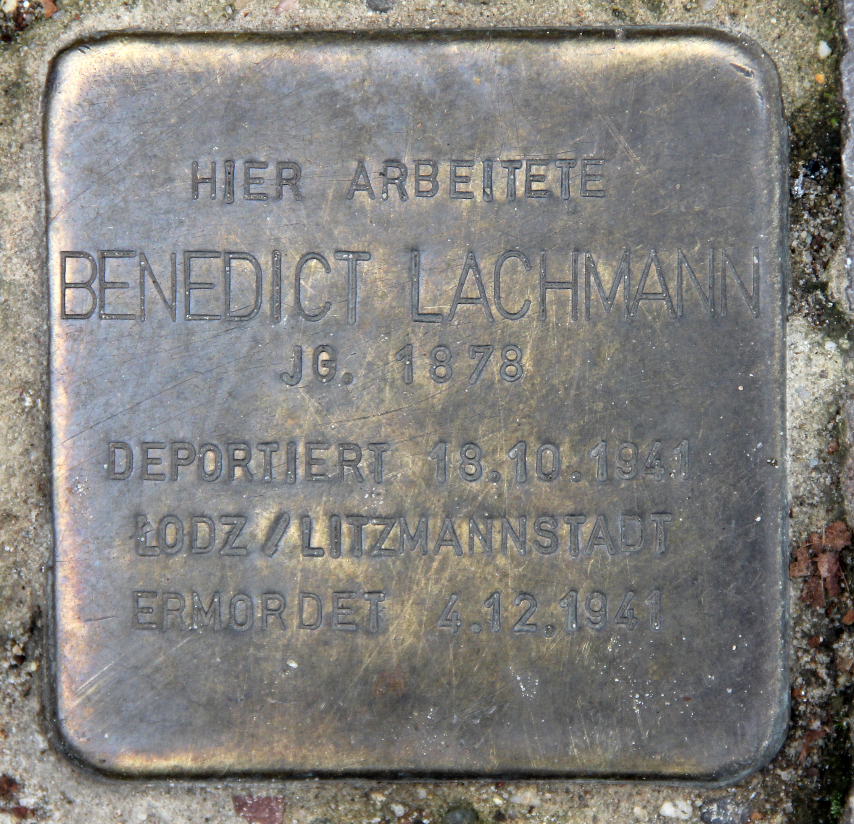 "Stolperstein" (stumbling block), Benedict Lachmann, Bayerischer Platz 13-14, Berlin-Schöneberg, Germany